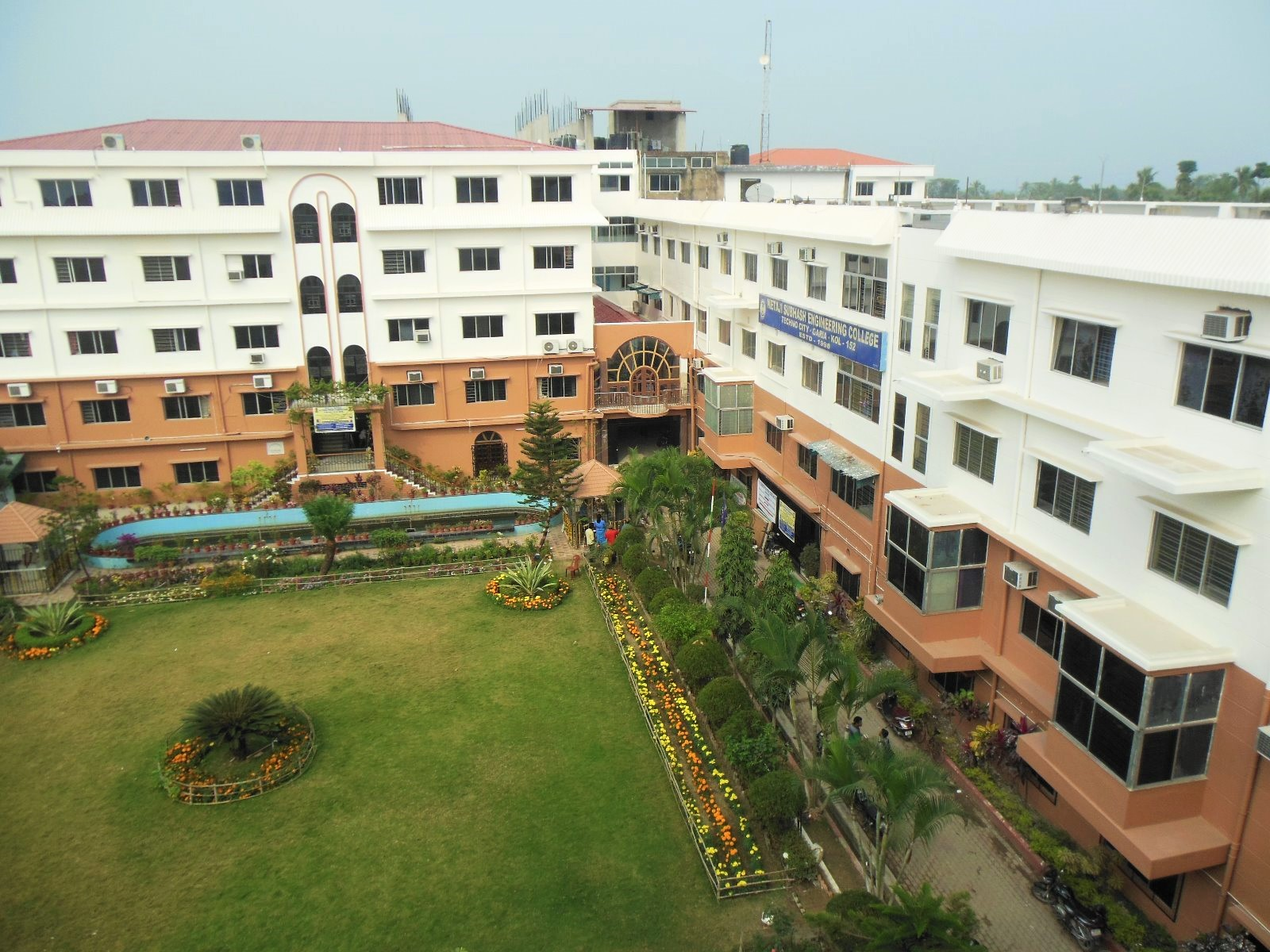 NSEC Campus New Look - Feb 2016